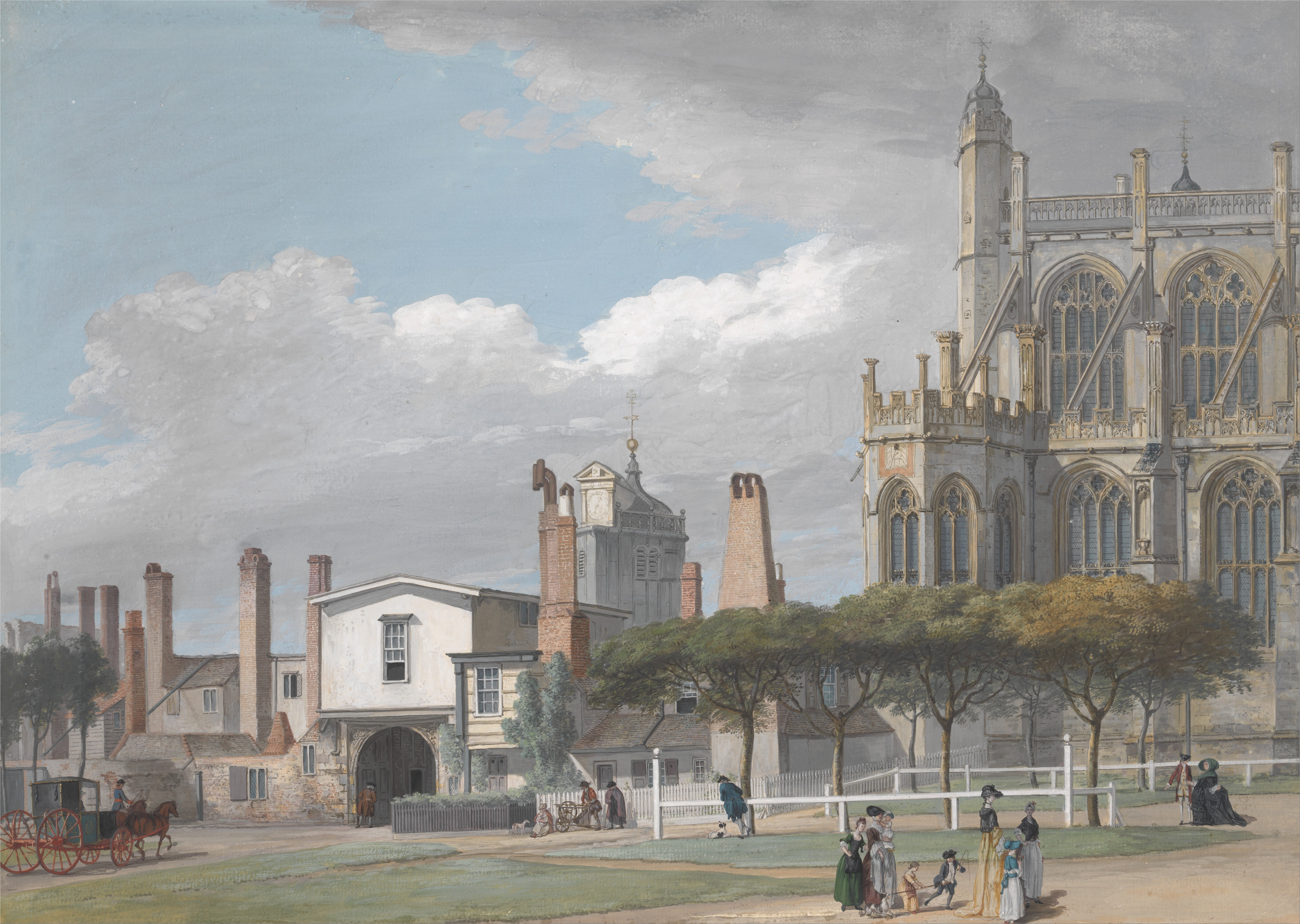 Architectural subject